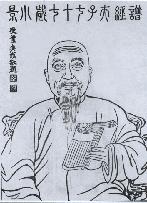 Yin Zhaoyong, politician of the Qing Dynasty.